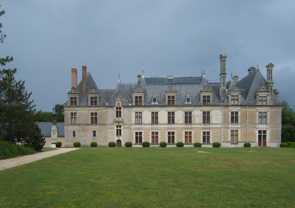 Castle of Beauregard in France, parkside